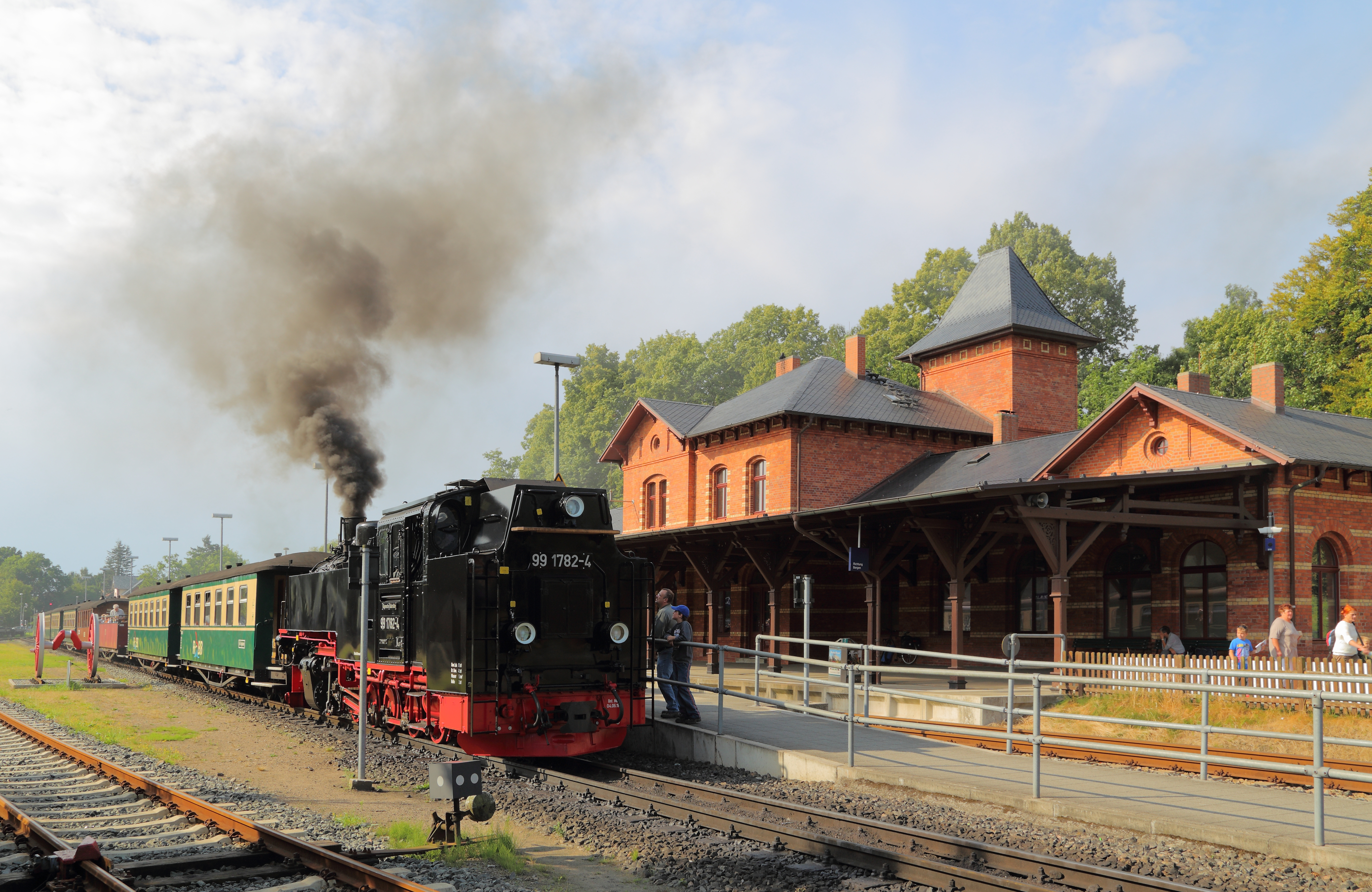 A train of the Rügensche Bäderbahn (RBB), formerly Rügensche Kleinbahn (Rügen Light Railway, RüKB), nicknamed Rasender Roland (Rushing Roland) at Putbus Station, Landkreis Vorpommern-Rügen, Mecklenburg-Vorpommern, Germany. The train station is a listed cultural heritage monument.